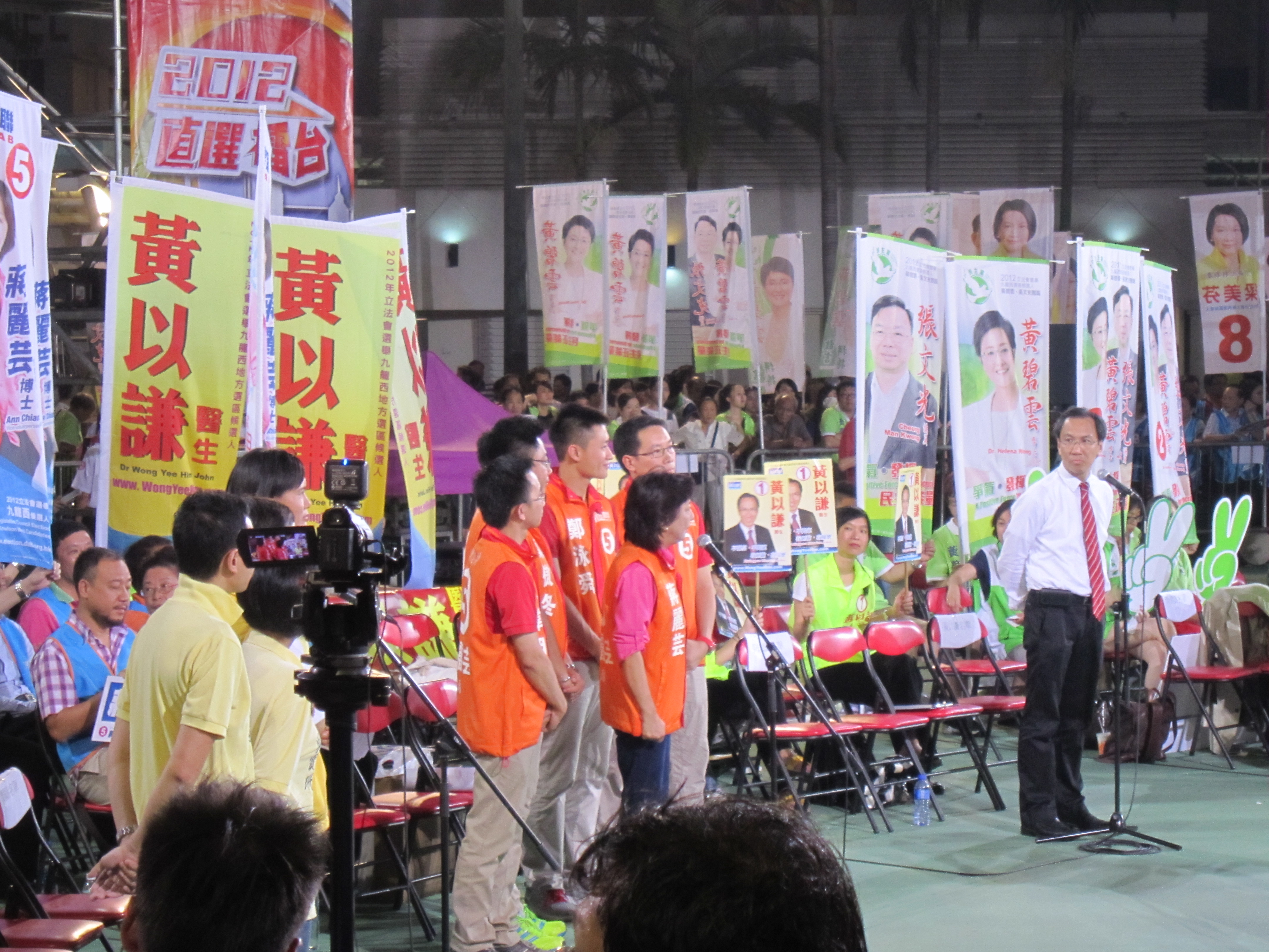 Ann Chiang in LegCo Election 2012 forum